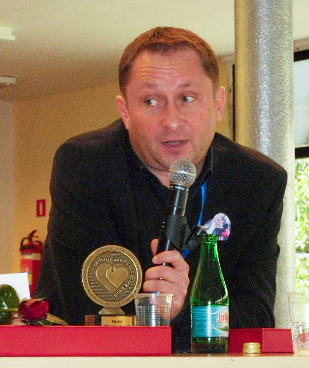 Kamil Durczok on II Memorial of Agata Mróz-Olszewska in Katowice.